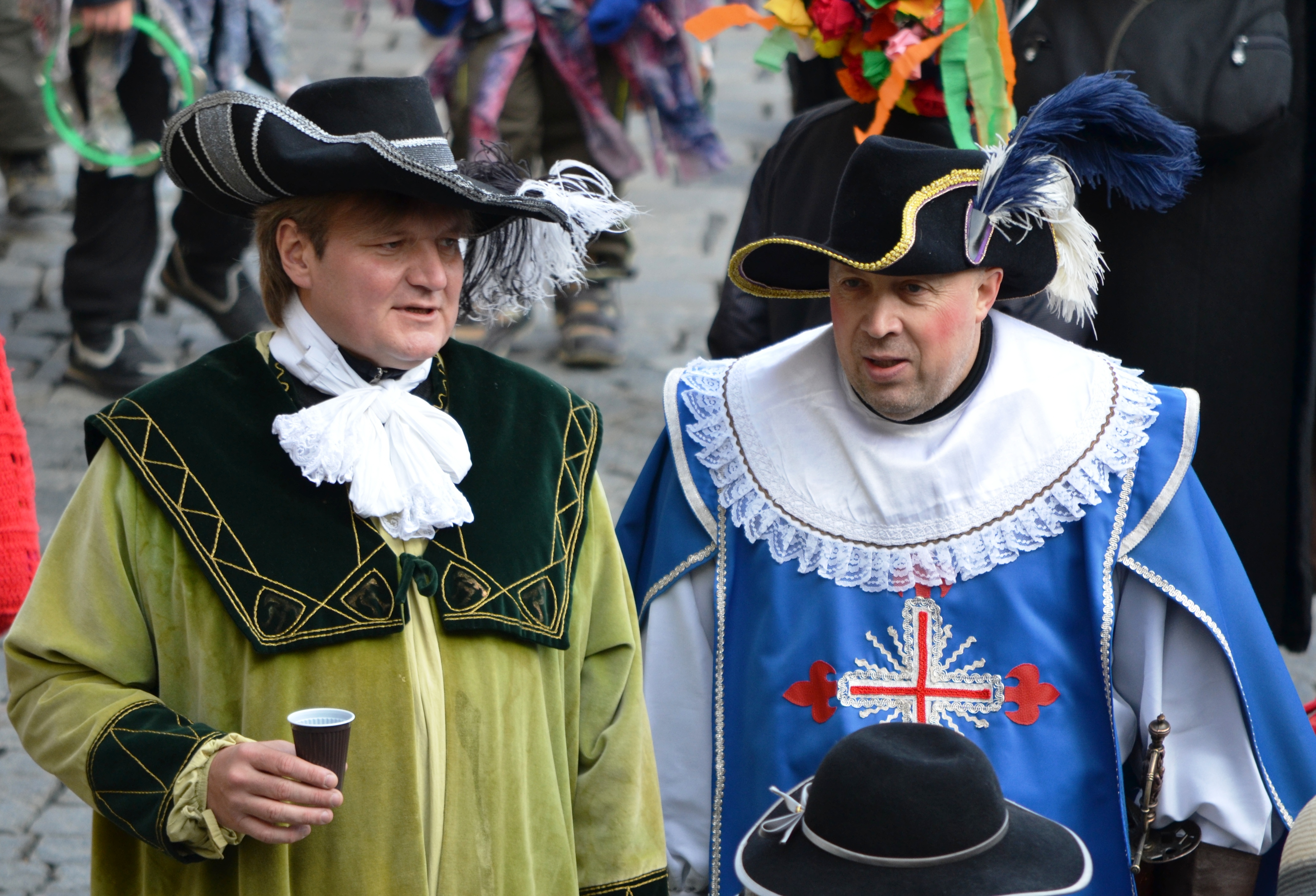 Daniel Hodek, Member of Prague City Assembly (left) and Oldřich Lomecký, Mayor of Prague 1 during Prague Carnival in February 2013